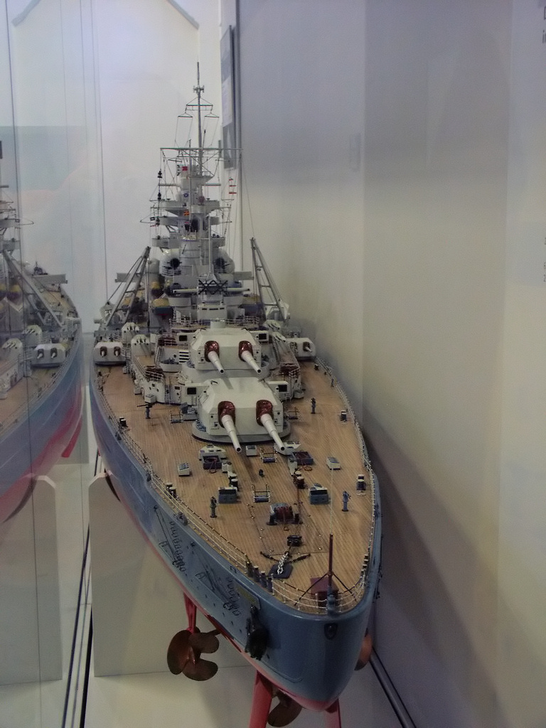 Model of Bismarck class battleship